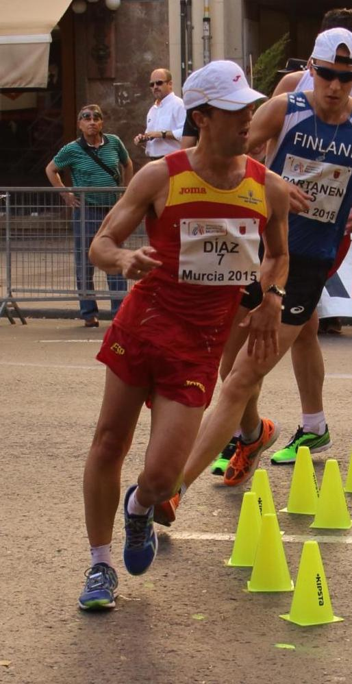 7-José Ignacio Díaz (ESP), 15-Veli-Matti Partanen (FIN) y 34-Genadij Kozlovskij (LTU) in the 11th European Cup Race Walking Murcia ESP 17 May 2015